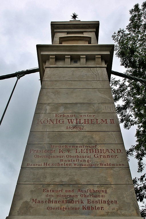 This image shows a pier of the suspension bridge over the river Argen in Langenargen. The bridge was built 1896/97.